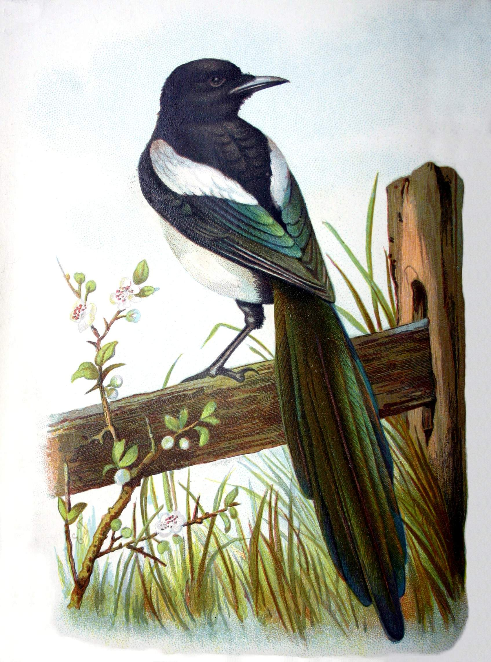 European Magpie(Pica pica)